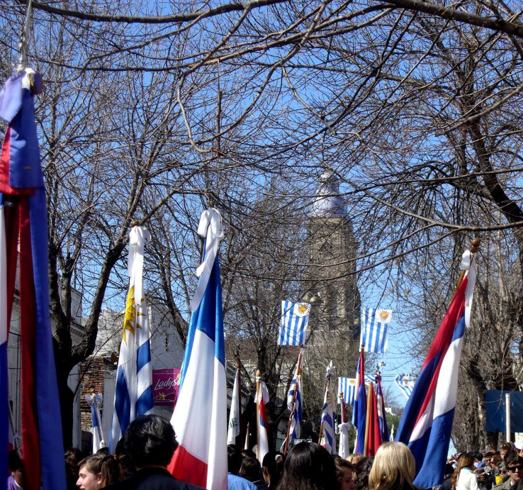 View of parade every August 25 is made in Florida City to commemorate the anniversary of the Declaration of Independence. In the background the Basilica sanctuary of our Virgin of the Thirty-Three.